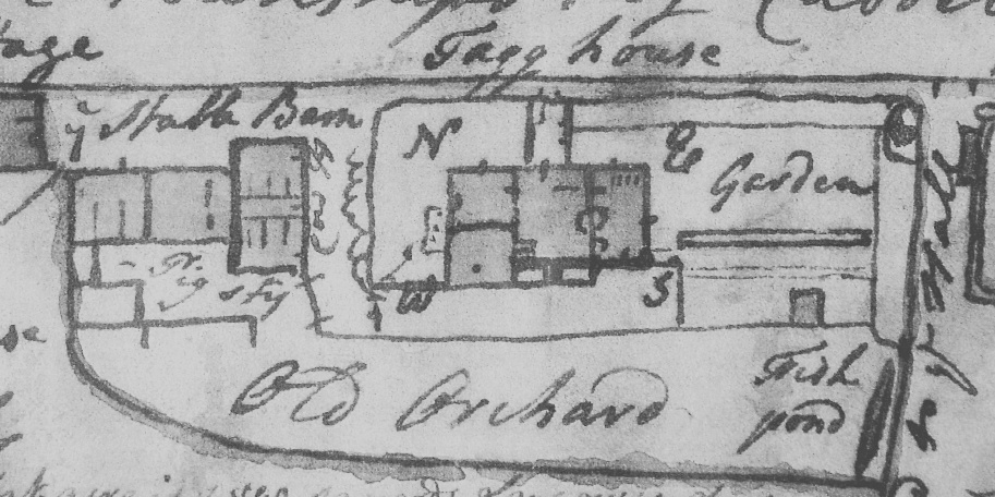 Photograph of drawing by George Leo Haydock